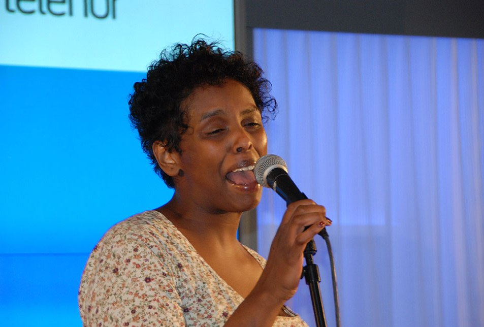 Norwegian R&B singer Nora Noor at the 15th anniversary of Telenor Open Mind, August 19, 2011.